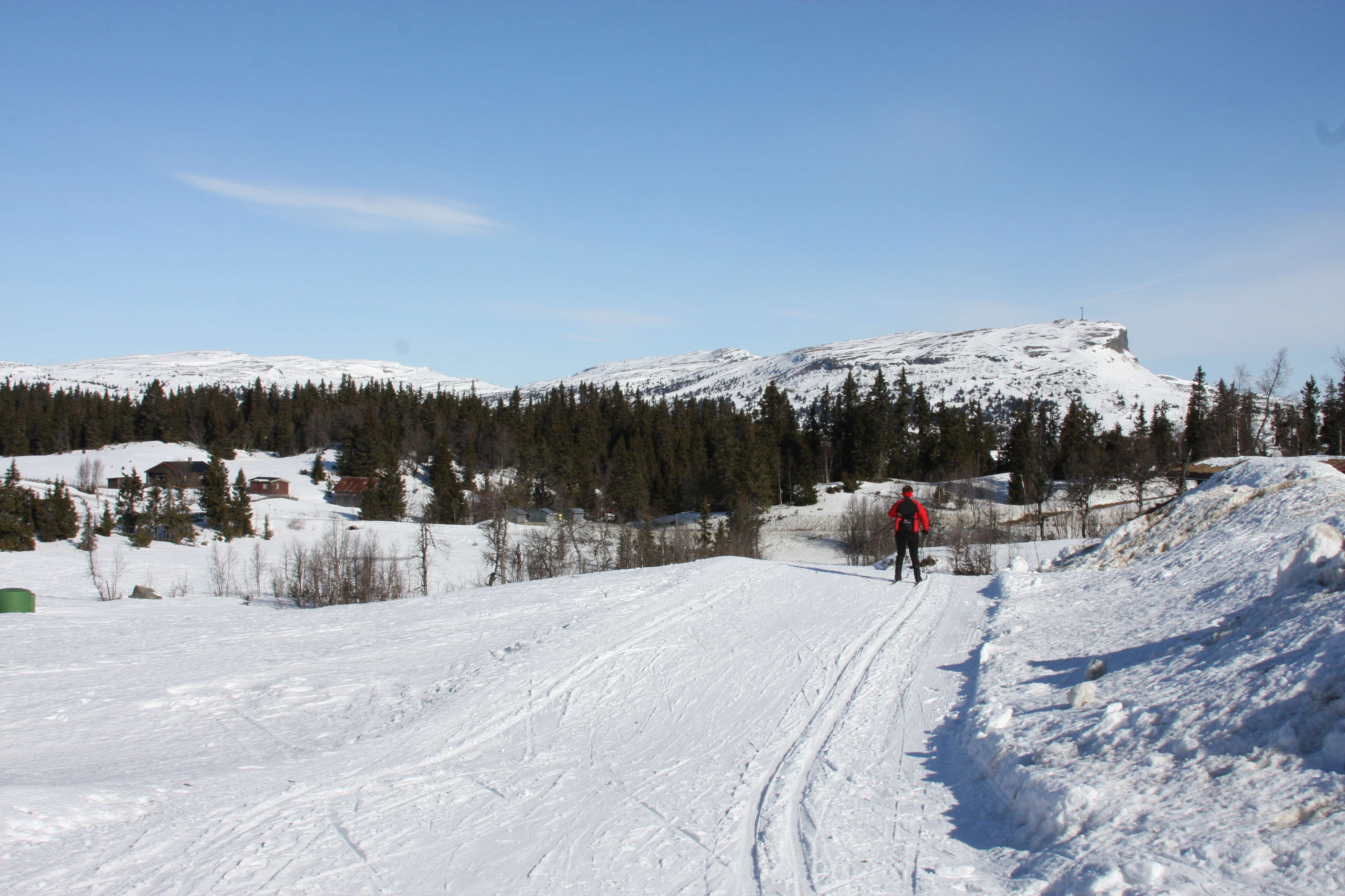 Skeikampen ski resort area, with Skeikampen mountain. Gausdal municipality, Norway. Photo as seen from south towards north.